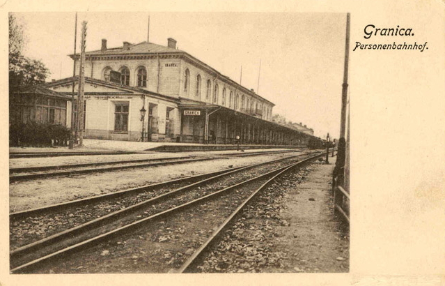 Granica station before World War I